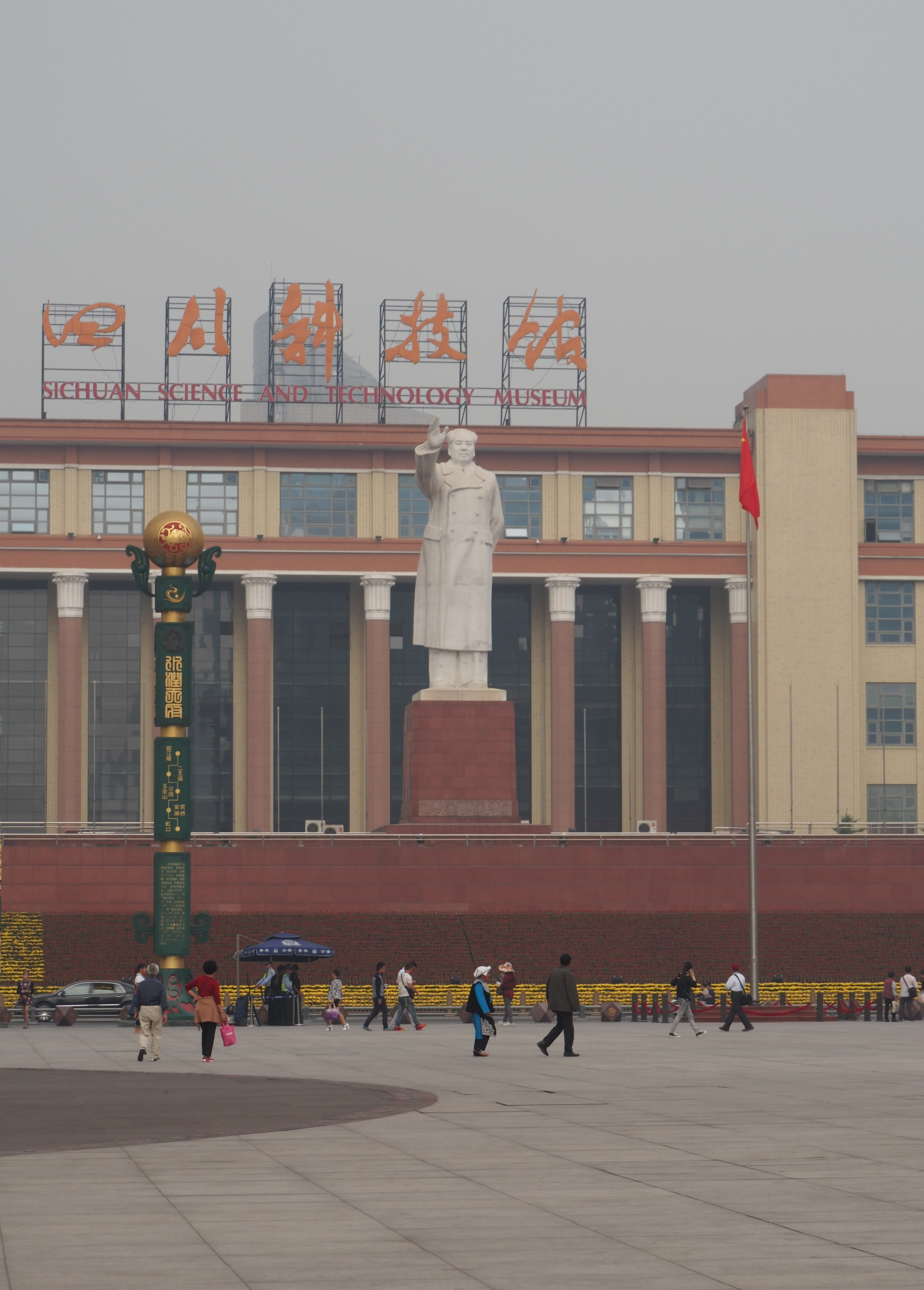 Chengdu